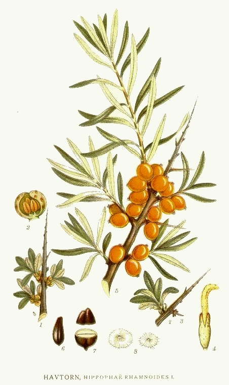 Hippophae rhamnoides L. Original Description Havtorn, Hippophae rhamnoides L.